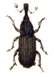 Cossonus linearis, from Calwer's Käferbuch, Table 34, Picture 19. Taxonomy was updated to 2008, using mostly the sites Fauna Europaea and BioLib. Please contact Sarefo if the determination is wrong!